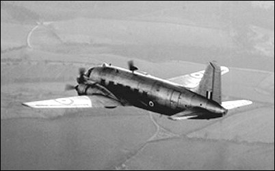 Original photograph taken by an employee of the British government. Image found on:avia.russian.ee/air/ england/a_vickers.html